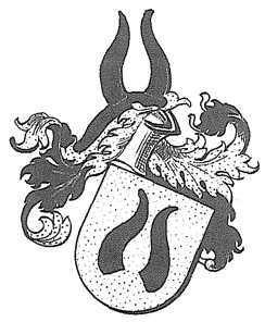 Crest of the Family Pivec